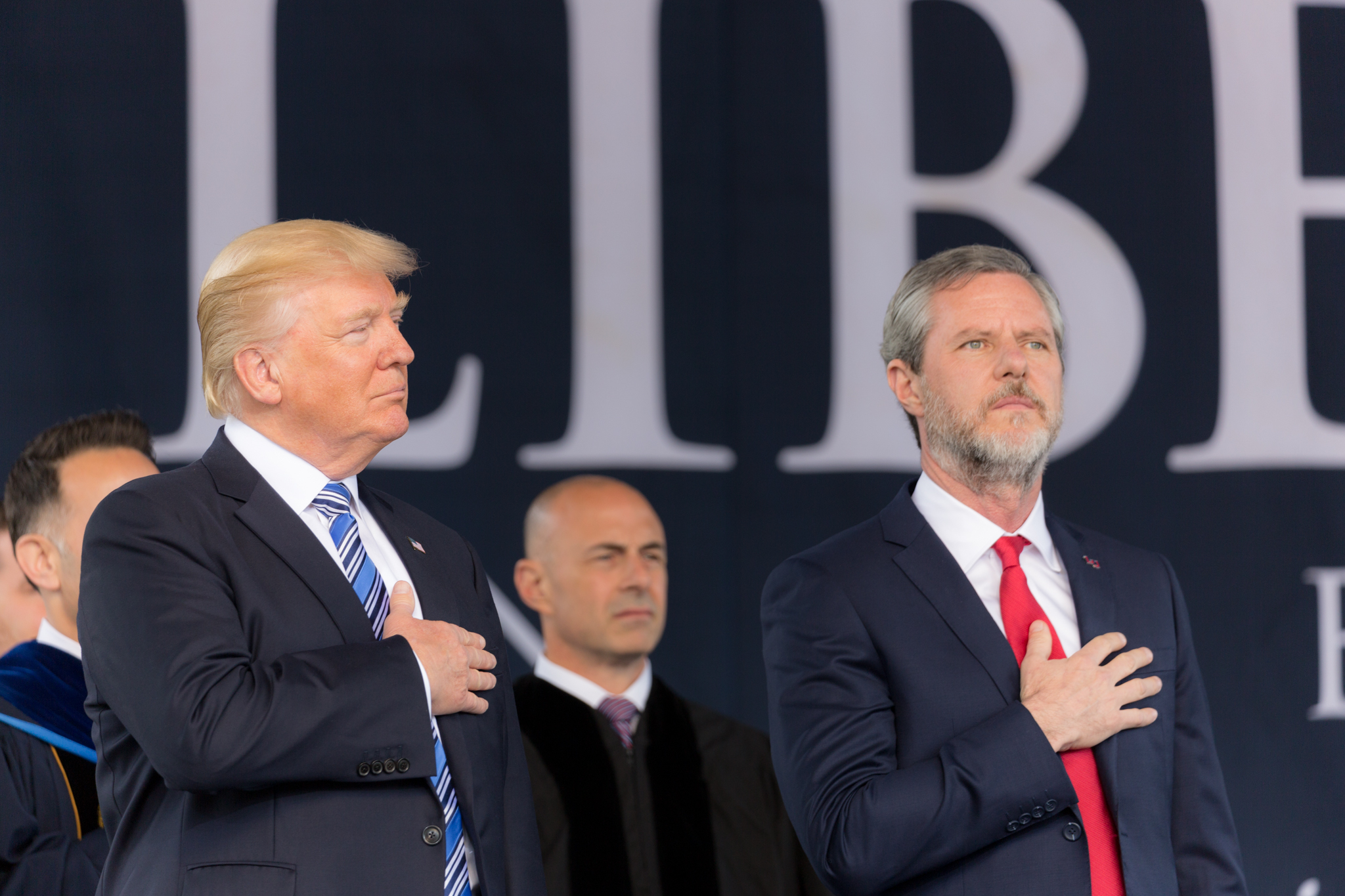 Donald J. Trump delivers remarks at the Liberty University commencement ceremony.